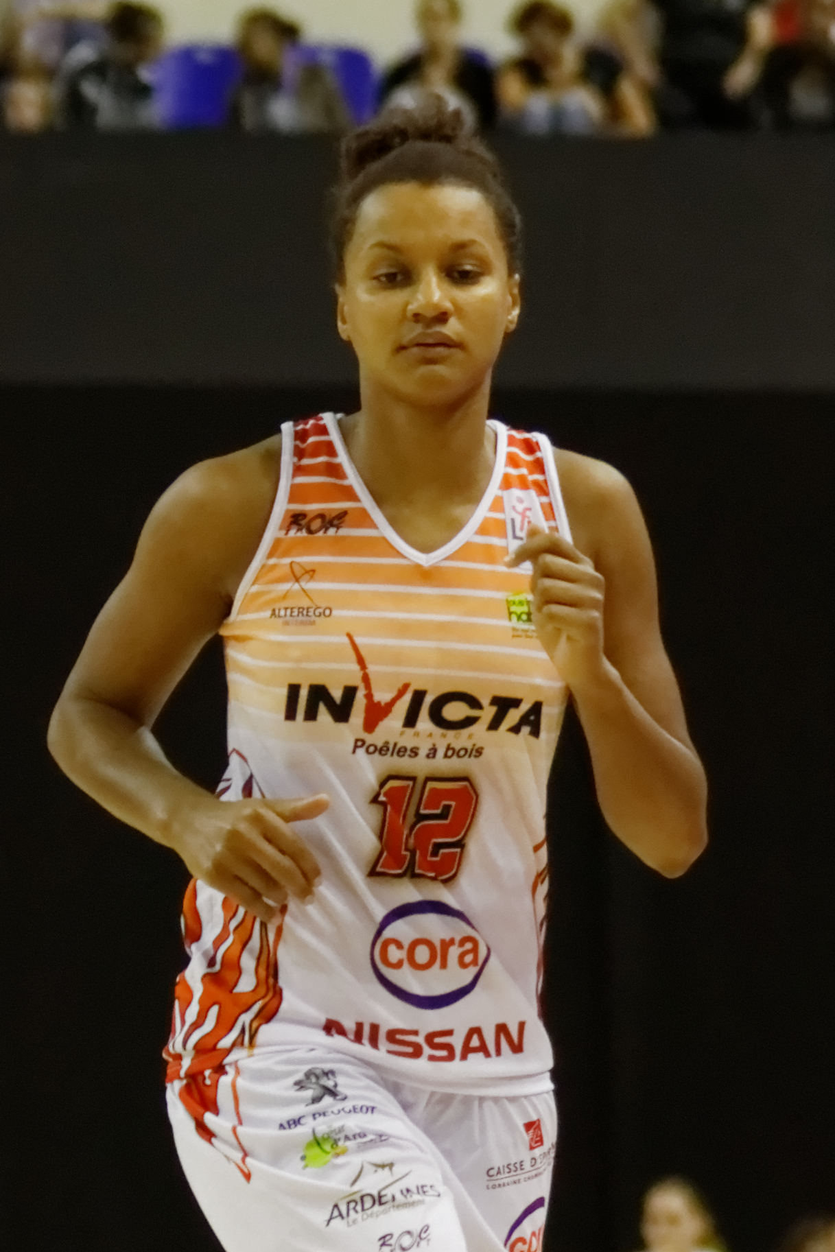 Open LFB, Charleville-Mézières - Tarbes, October 5th, 2013.